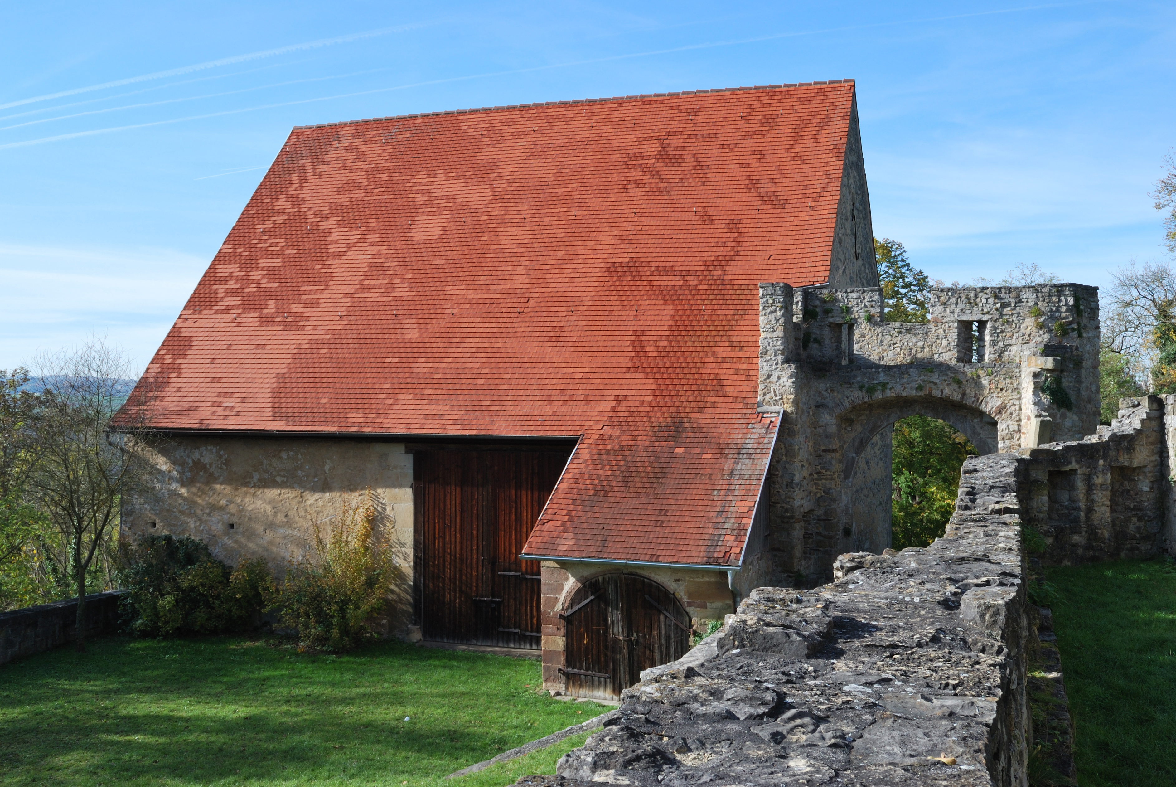 Old barn on the castle ruin Nippenburg near Schwieberdingen in Southern Germany.